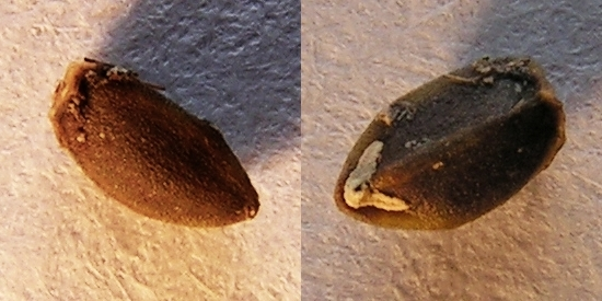 The seeds of Dracocephalum moldavica ‘Горыныч’.